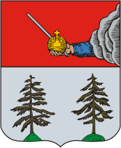 Krasnoborsk (Arkhangelsk oblast), coat of arms (1780)